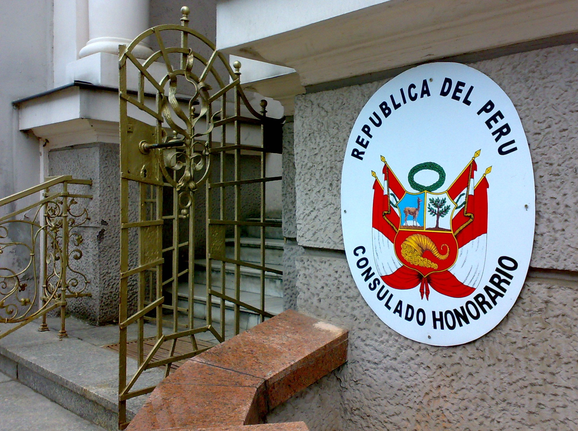 Consulat of Peru - Poznan, Zwierzyniecka Street.